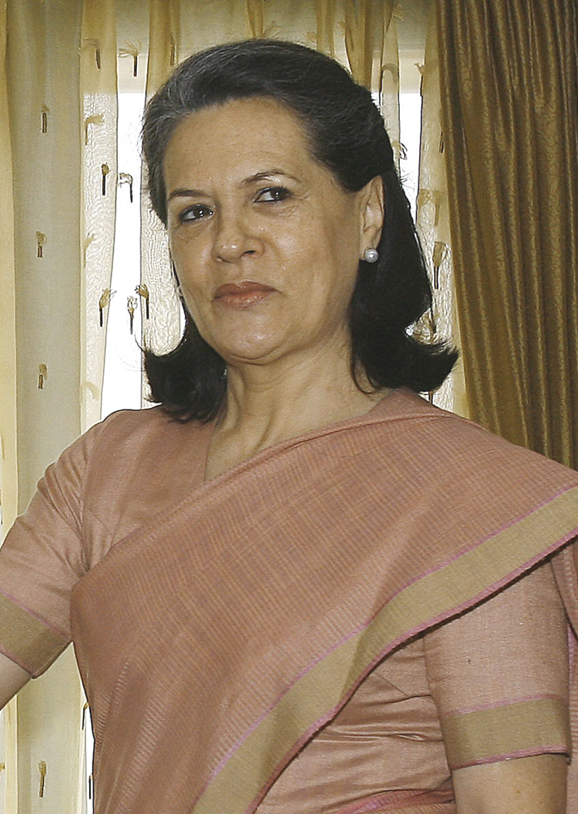 Sonia Gandhi, Indian politician, president of the Indian National Congress and the widow of former Prime Minister of India, Rajiv Gandhi.